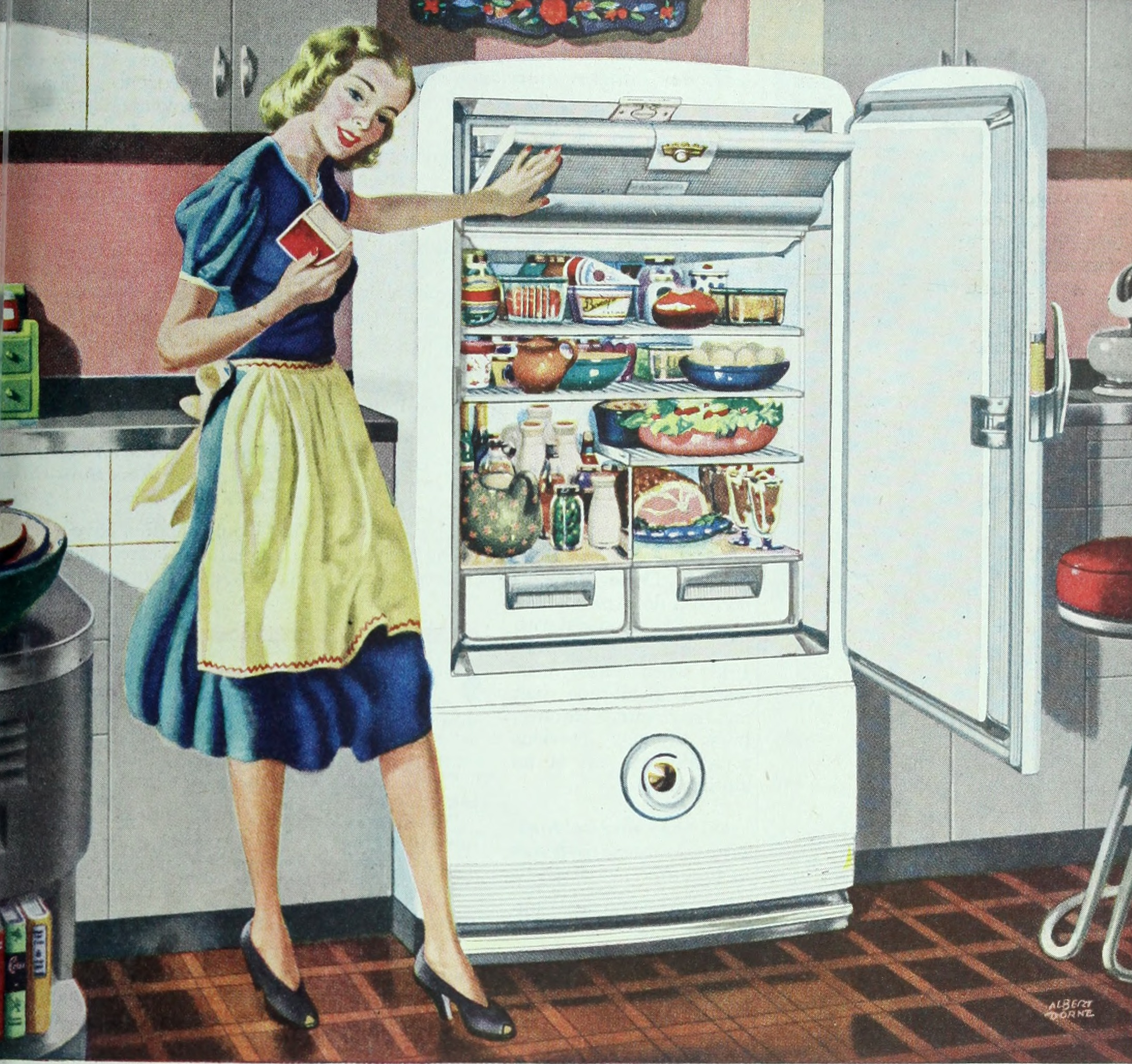 Title: The Ladies' home journal Year: 1889 (1880s) Authors: Wyeth, N. C. (Newell Convers), 1882-1945 Subjects: Women's periodicals Janice Bluestein Longone Culinary Archive Publisher: Philadelphia : (s.n.) Text Appearing Before Image: he duration of marriages which eijdivorce. But the average period is tenbefore the formal breakup. Unhappy codo not ordinarily take their decisio;divorce immediately to the courts •arriving at it. They are separated oraverage for about three and a half yeanfore doing so. • 21. As the number of childrencreases, does divorce become a rempossibility? Yes. Couples with one child are twklikely to get a divorce as those withchildren; nine times as likely as if theyfive children or more. Large familiesonly increase responsibilities, but augnemotional ties. In Leslie County, Itucky—a predominantly rural communilwhere the average number of births per fily is said to be nine, divorce is virtuunknown. It was so throughout the 1in the days of the good, old-fashioned f ily. 22. From the standpoint of greatmarital happiness, is there an ideal tito have children? (Continued on Page 298) LADIKS HOME JOl li,\ \l. no wonder-more FRI6.PAIRES SERVE IN MORE AMER/G7W HOMES THAN ANV OTHER REFR/6ERAT0R Text Appearing After Image: SEE HOW YOUSAVE FOOD